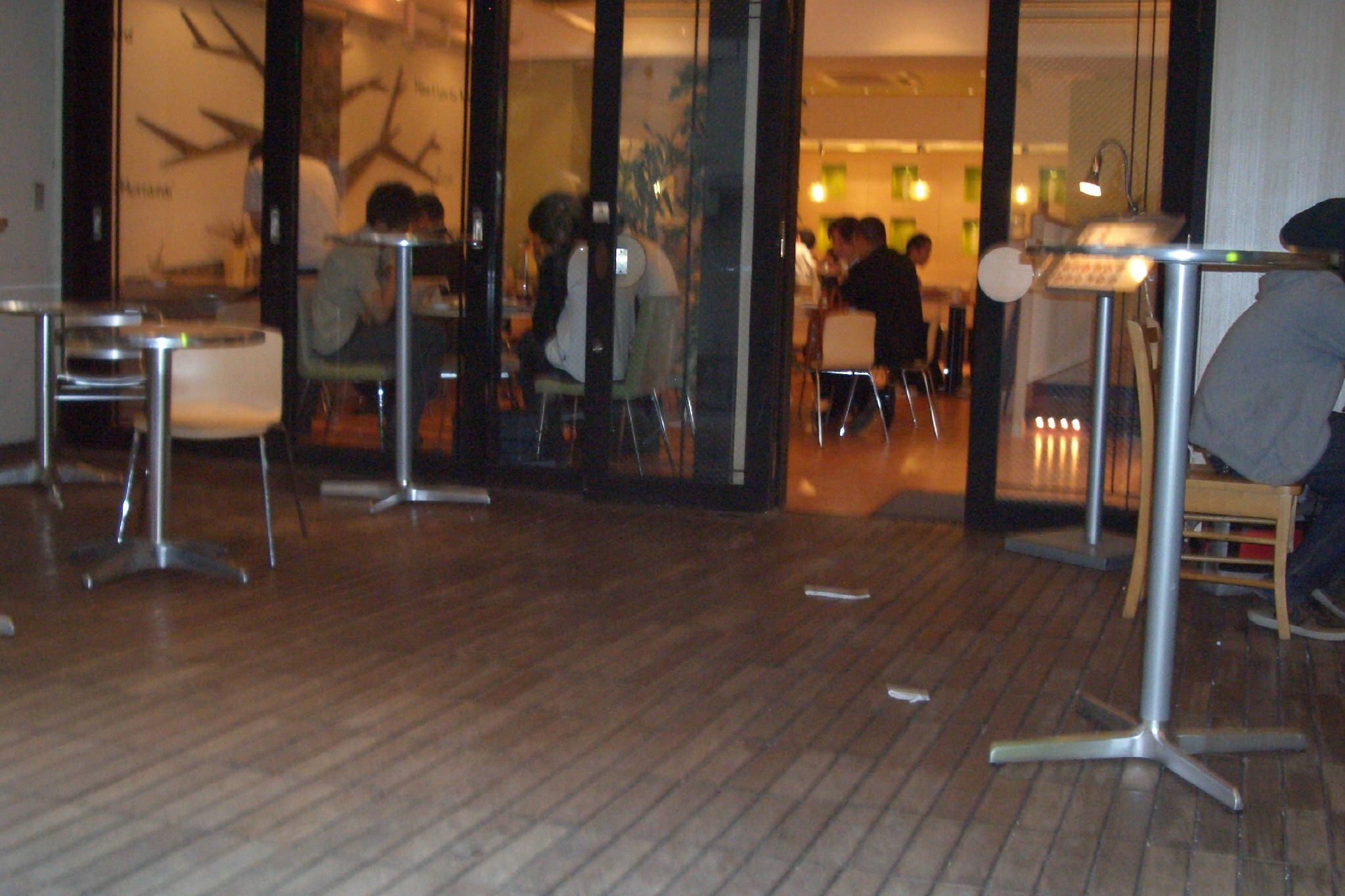 Inside the Caffè Solare, at Linux Café building